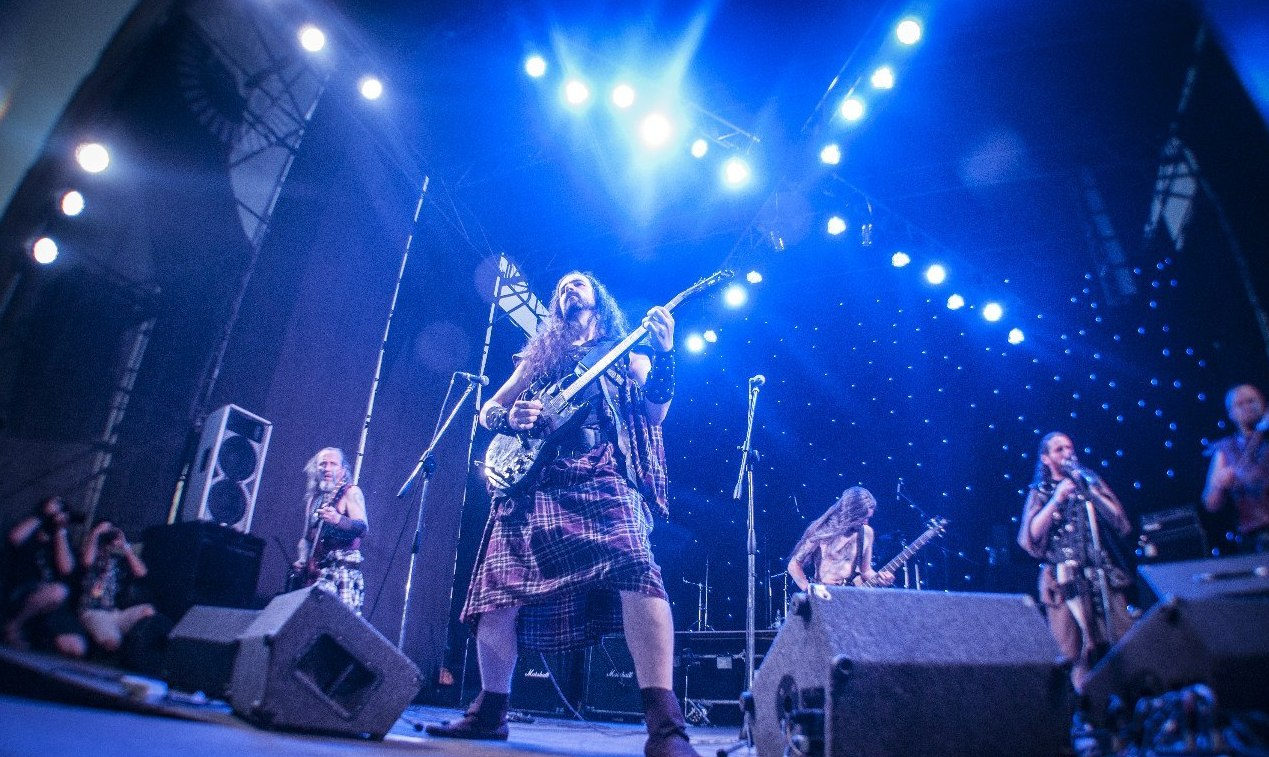 Keith on stage at Rock for Roots